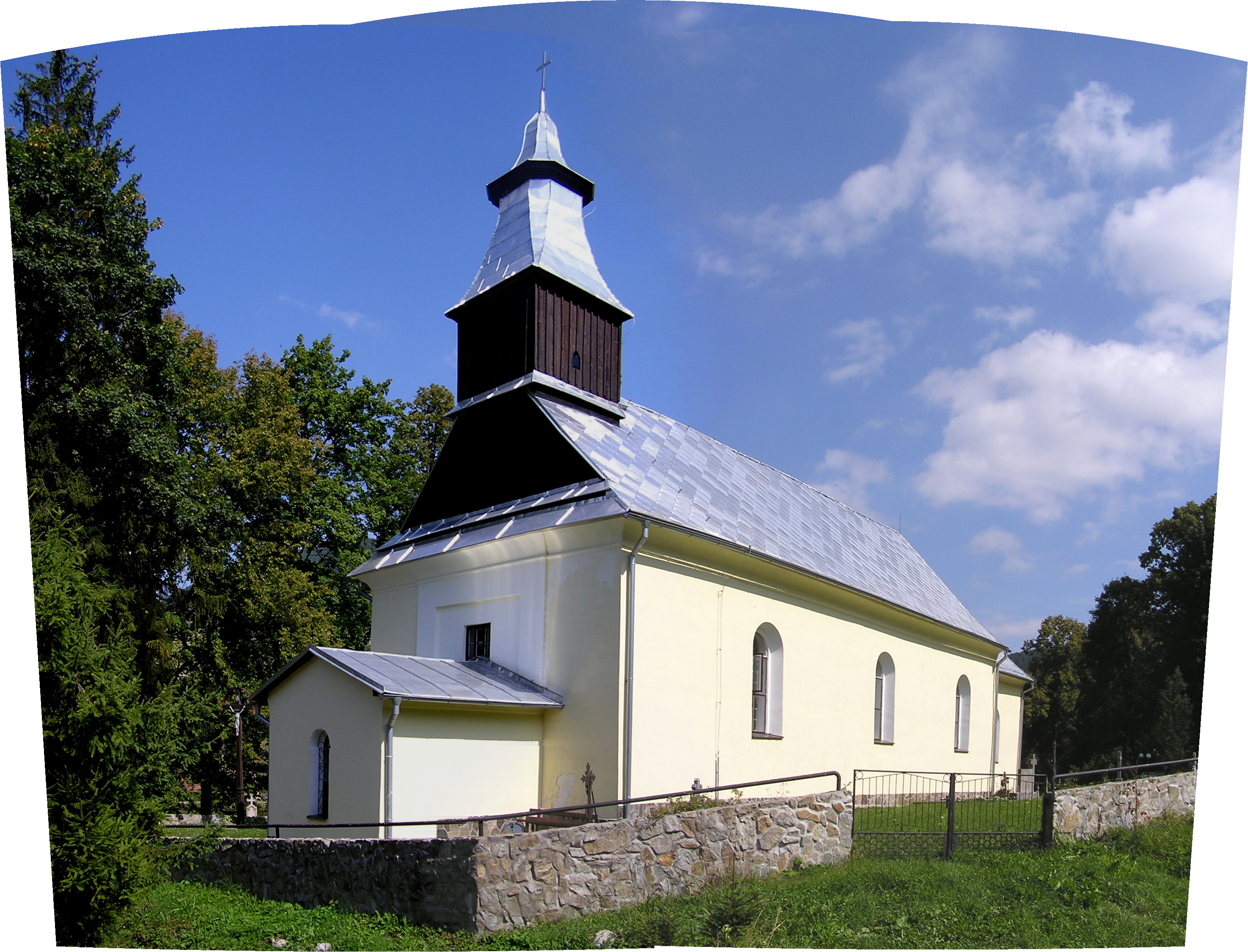 Church in Vrícko